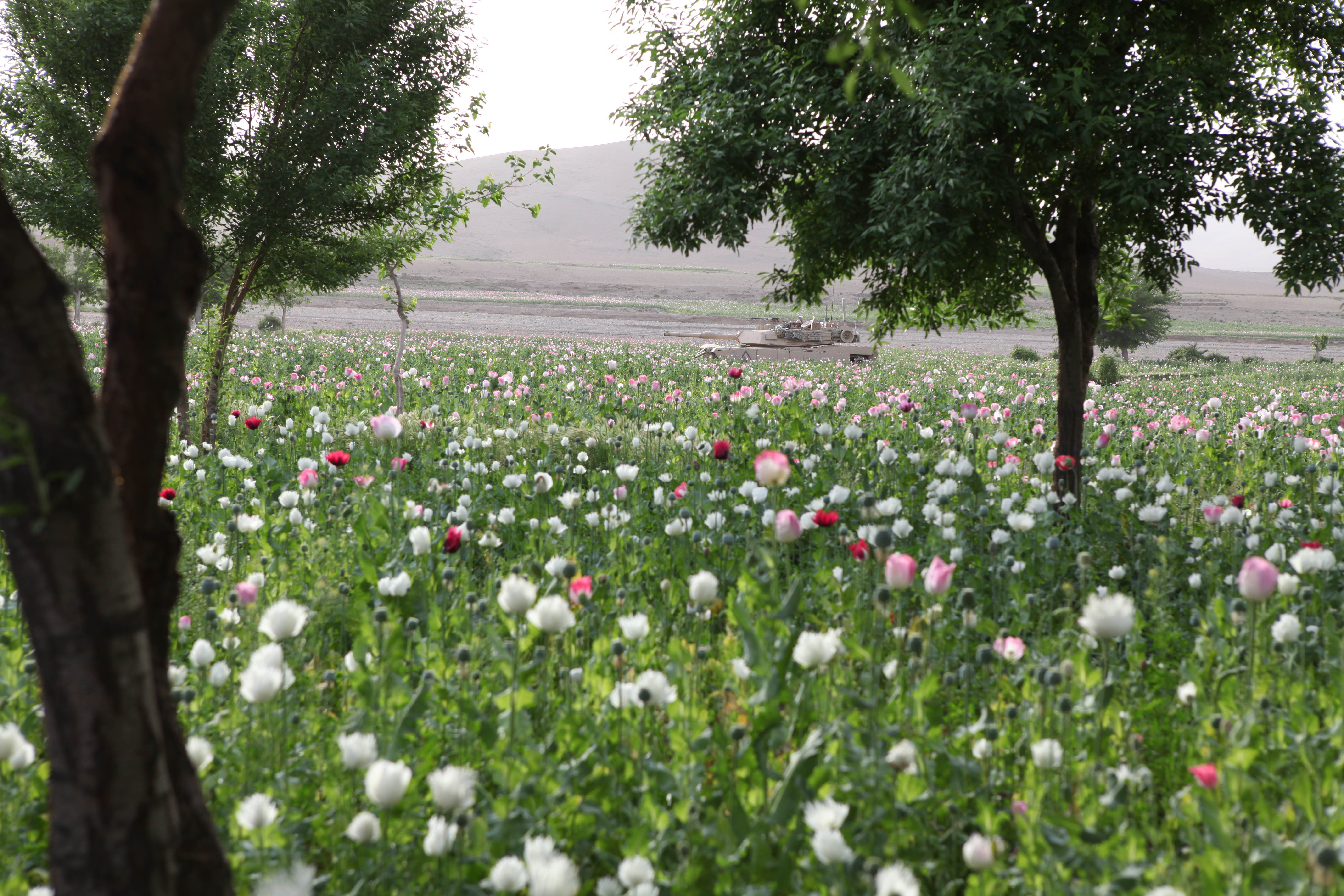 A tank drives by to provide better security for the Marines with Charlie Company, 1st Battalion, 8th Marine Regiment, as they prepare to search a village for Taliban fighters in the early morning, April 18, 2012. The Marines and sailors with Charlie Company took part in a month long operation where they cleared the Gostan valley of enemy forces.